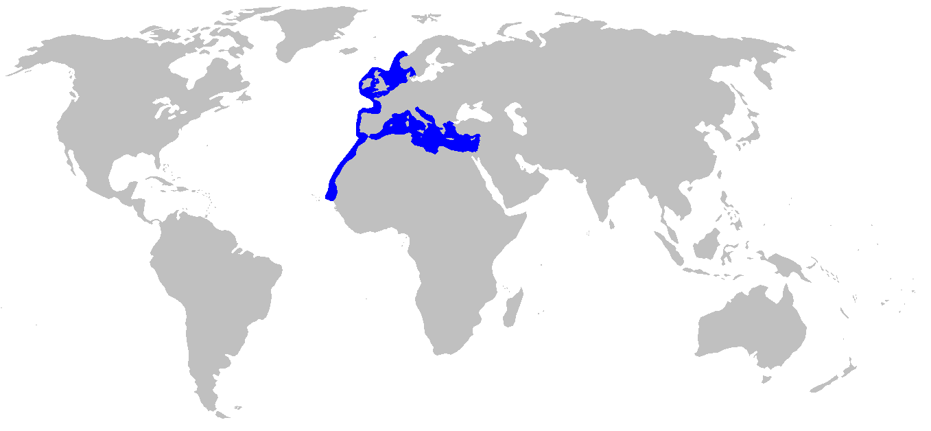 Distribution map for Scyliorhinus canicula